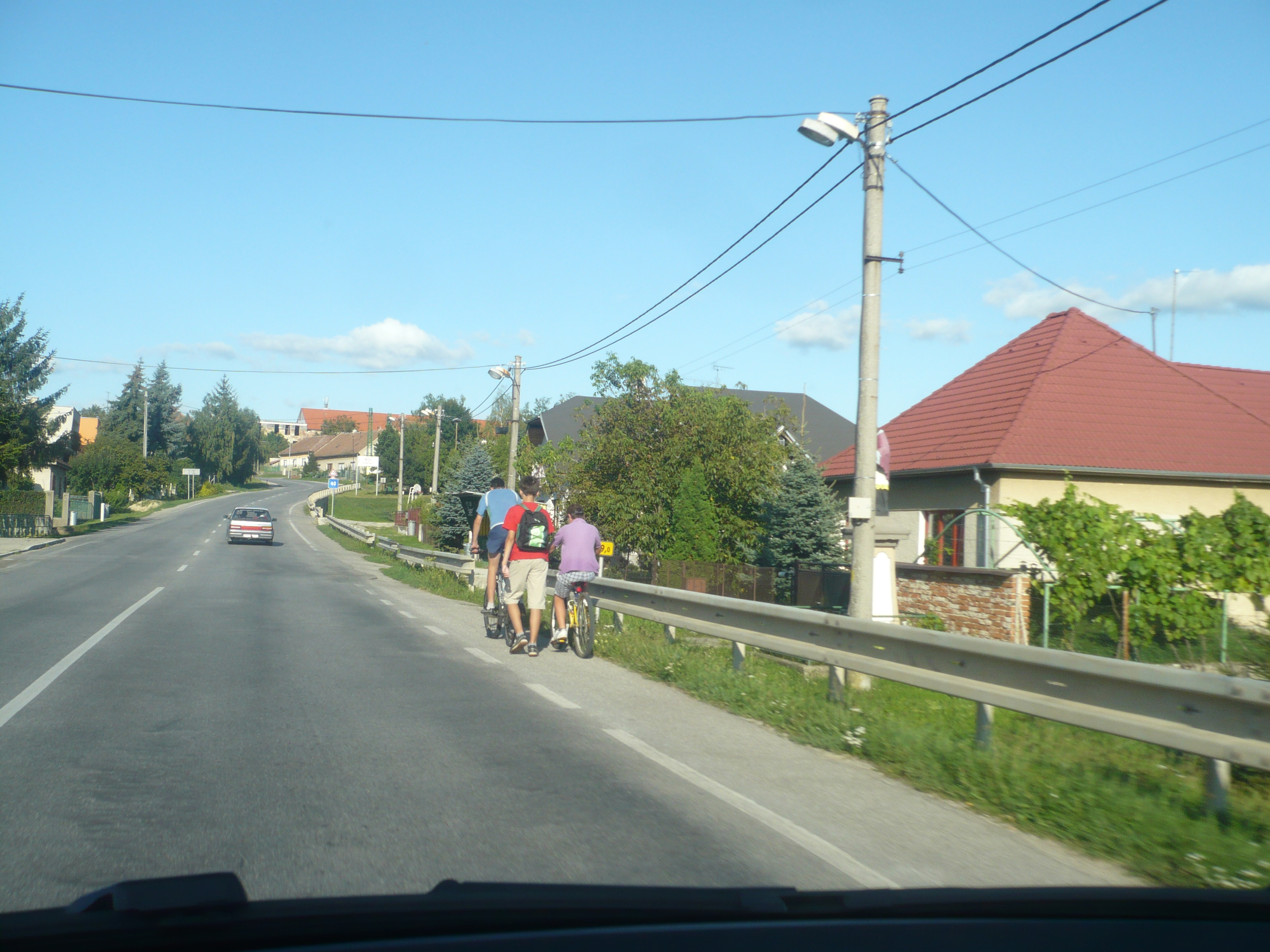 A village near Topolcany